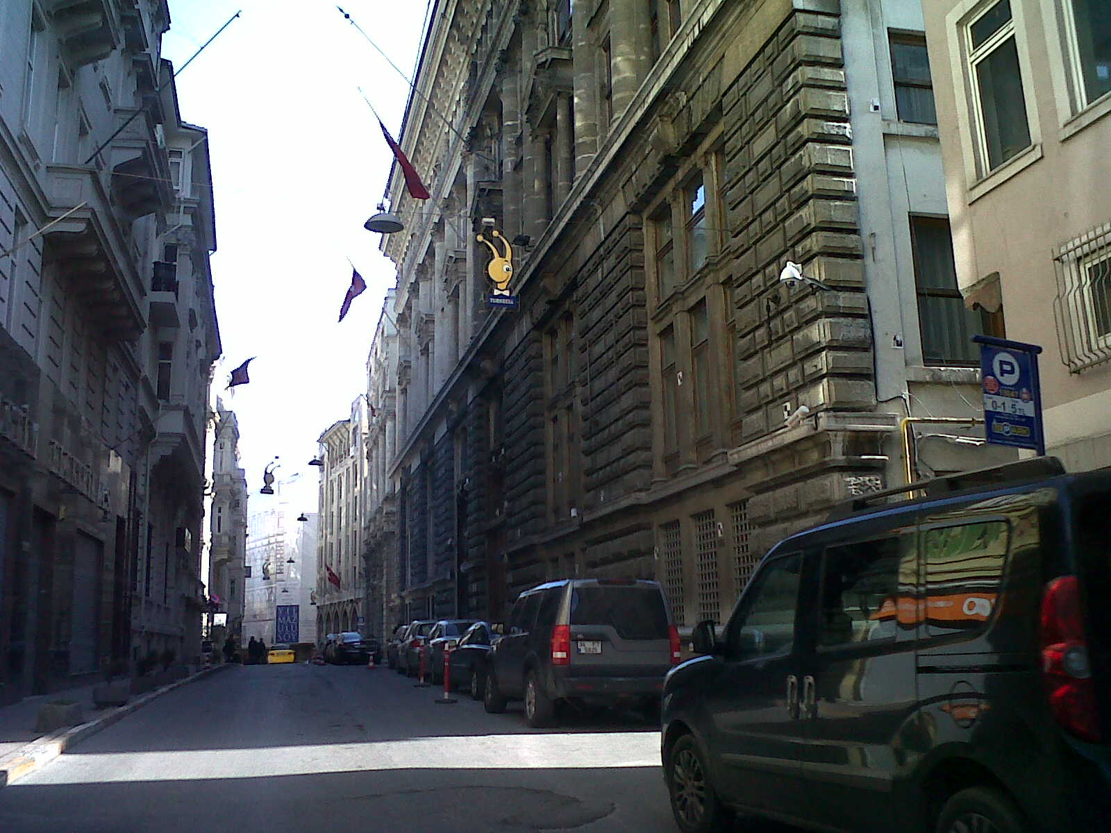 Bankalar Caddesi Şubat 2012